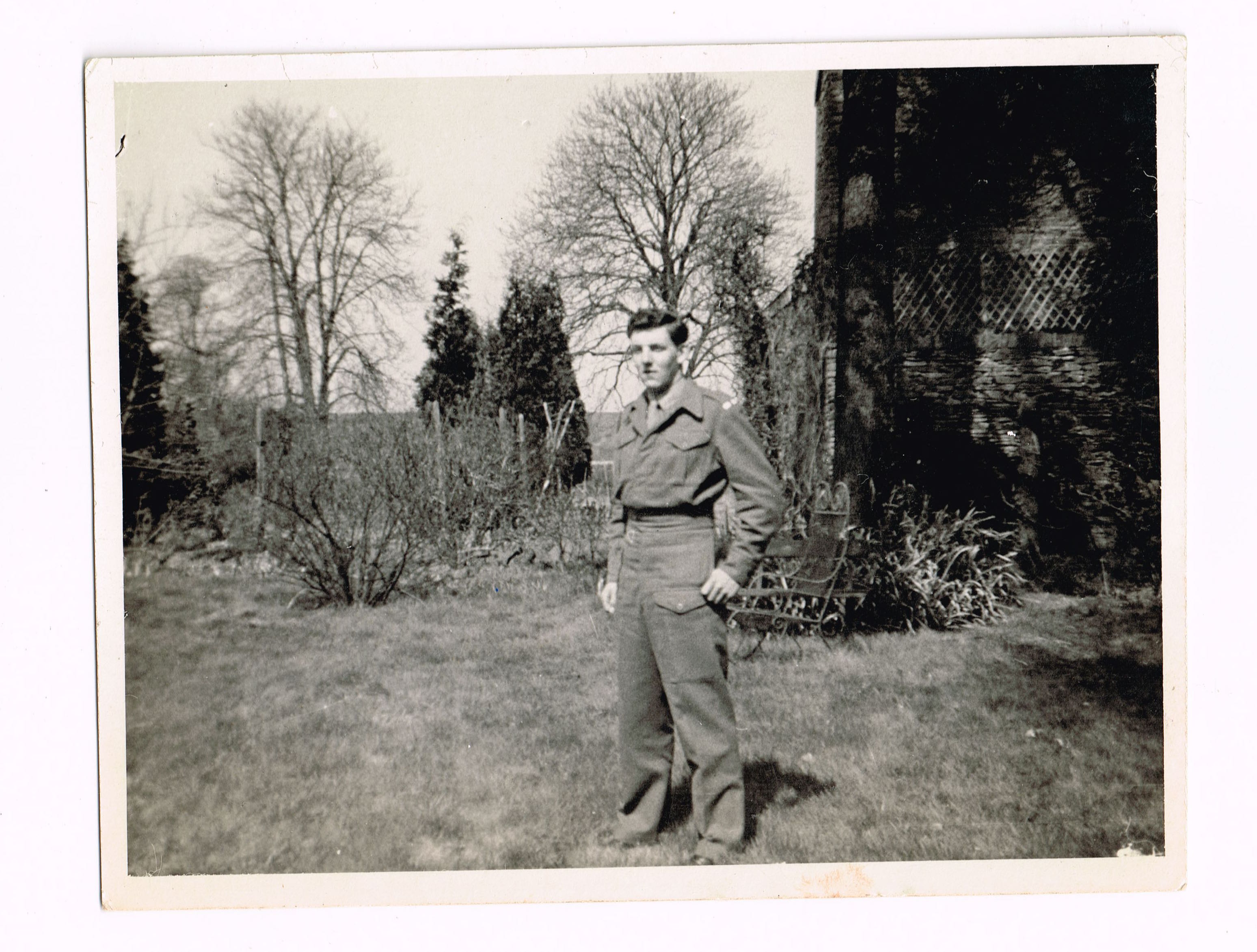 George Reid Crossman in uniform for the Royal Lancers, Catterick, April, 1946. Later he trained as a pilot with the Royal Air Force.